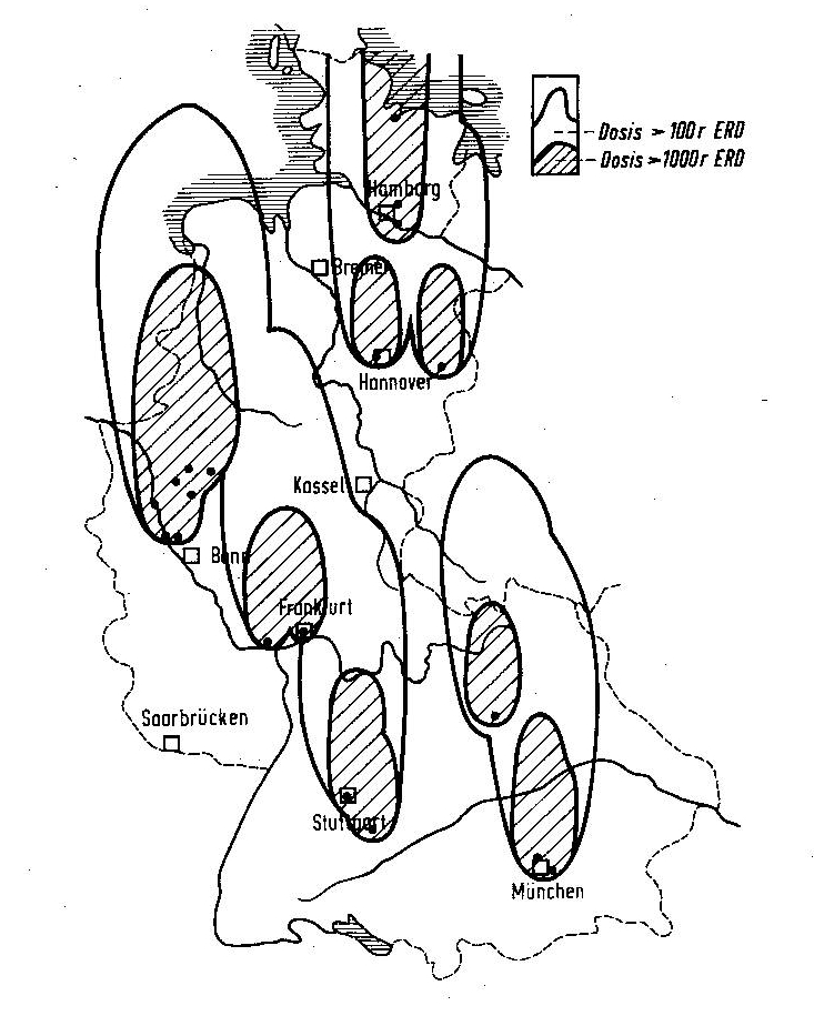 20 atomic bombs, of 2MT (100x Hiroshima type) each on major towns in West Germany, equivalent to 3% of sowjet intermediate-range missiles during cold war, would cause 15 million dead victims and many injured. A radioactive dose of 1000 r ERD (roentgen equivalent residual dose = accumulated dose on ground) is deadly without chance of survival, 100 r ERD implies illness.